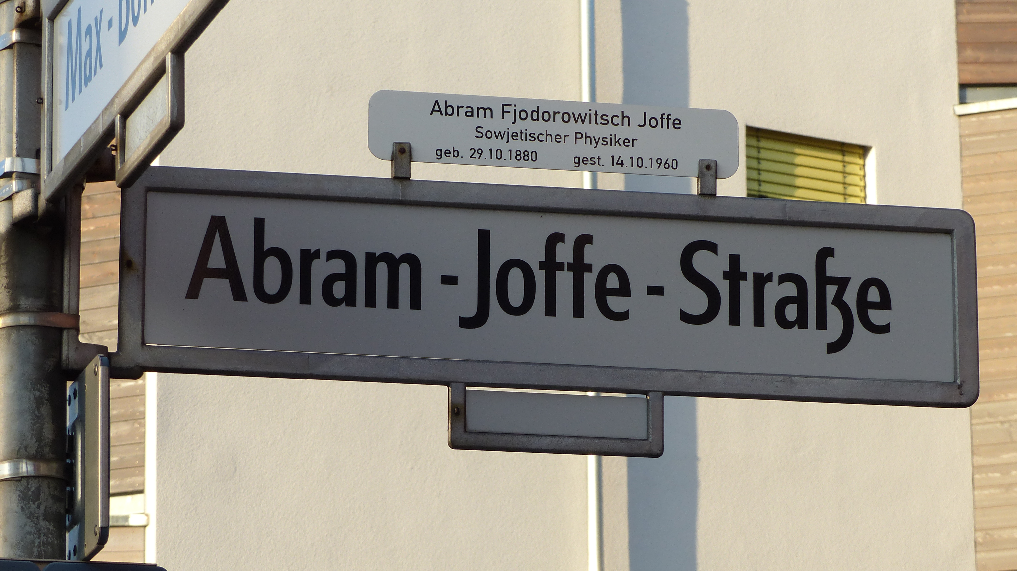 Abram-Joffe-Street, Sciencepark Berlin-Adlershof